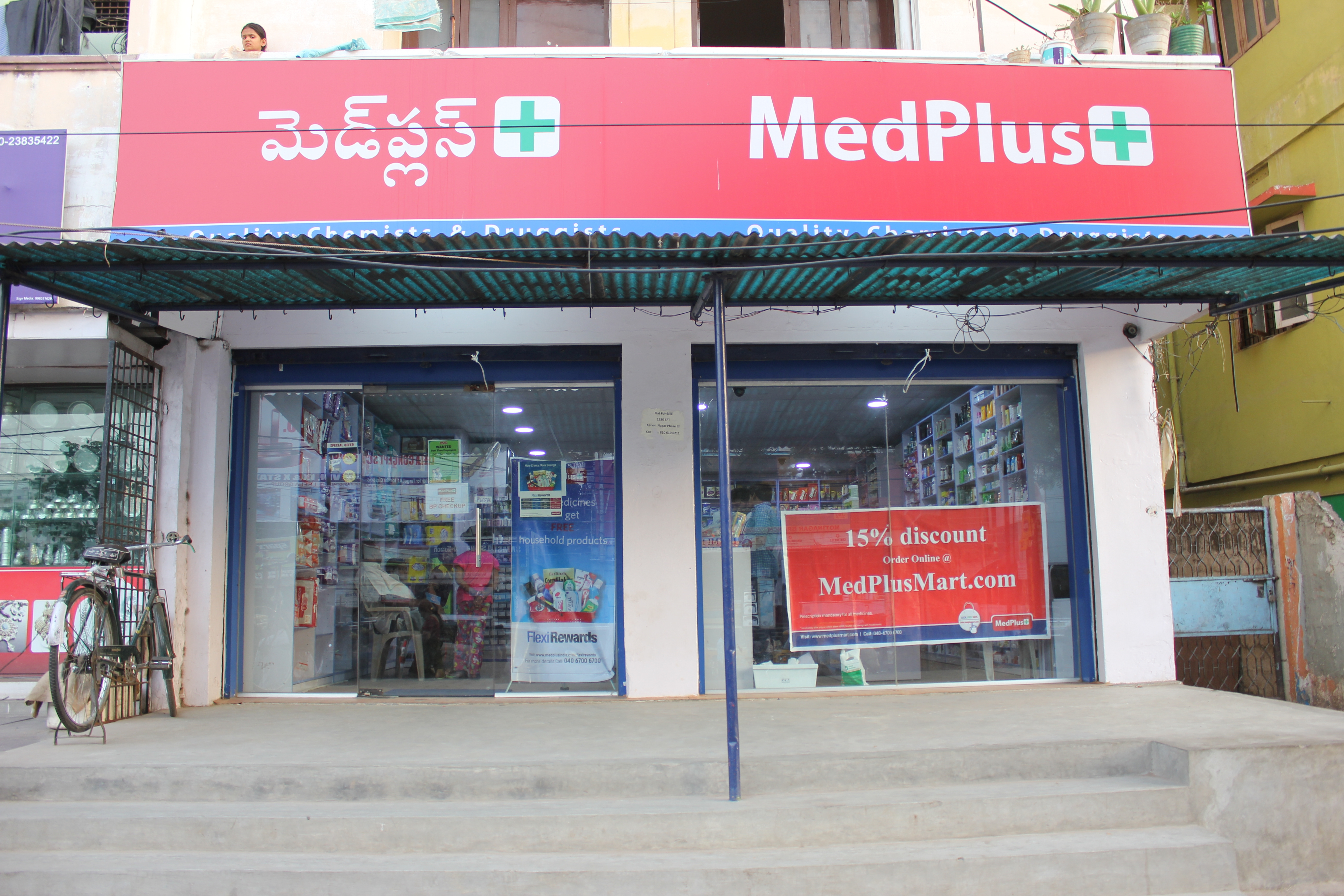 MedPlus store